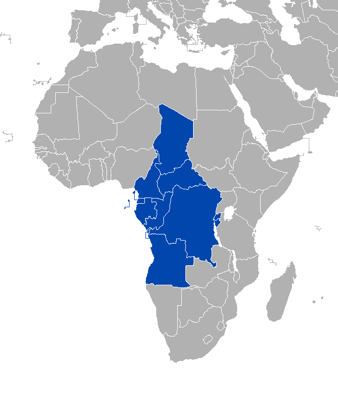 Map of the member countries of the ECCAS